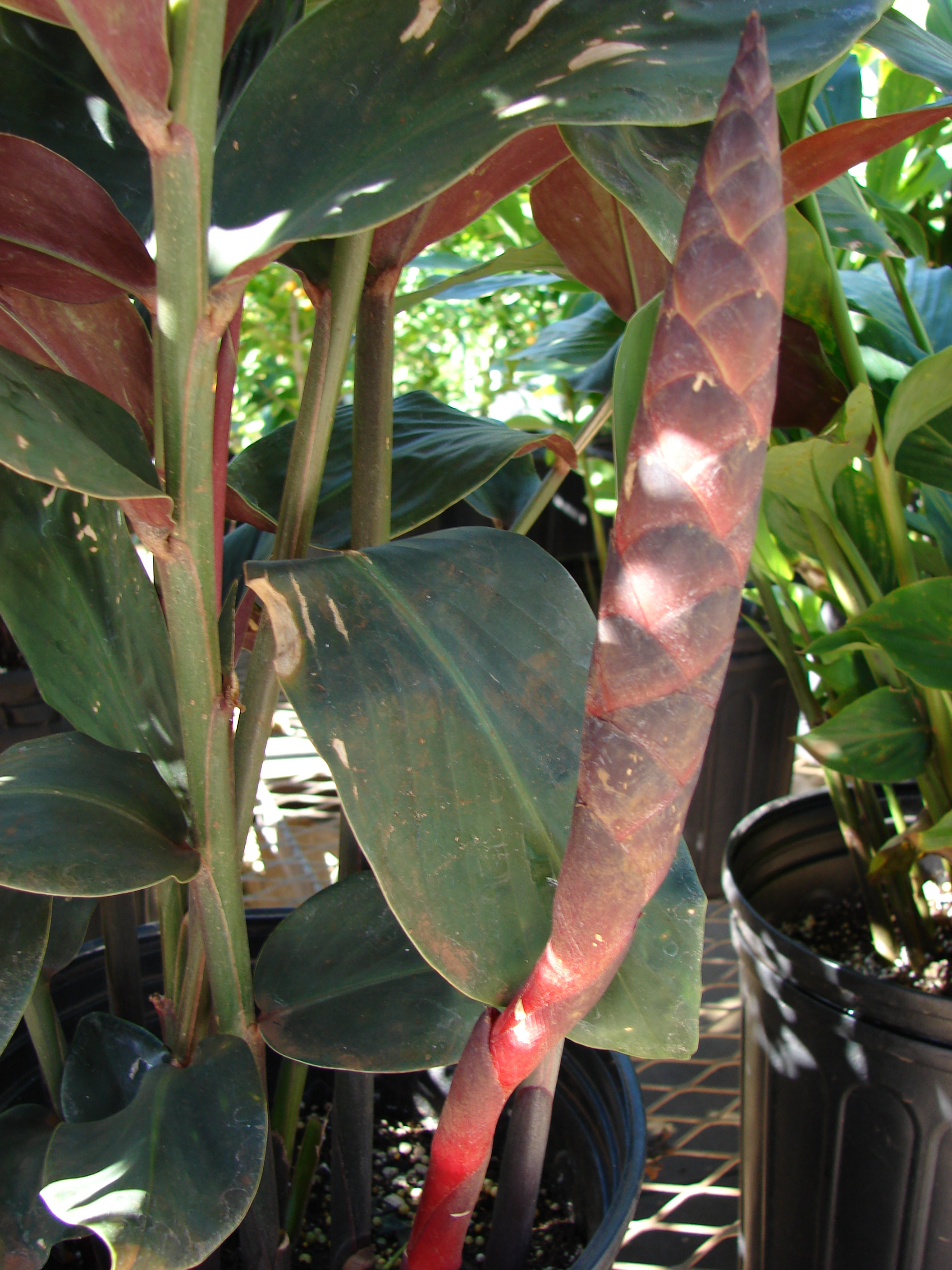 Zingiber malaysiana (flower spike). Location: Maui, Lowes Garden Center Kahului